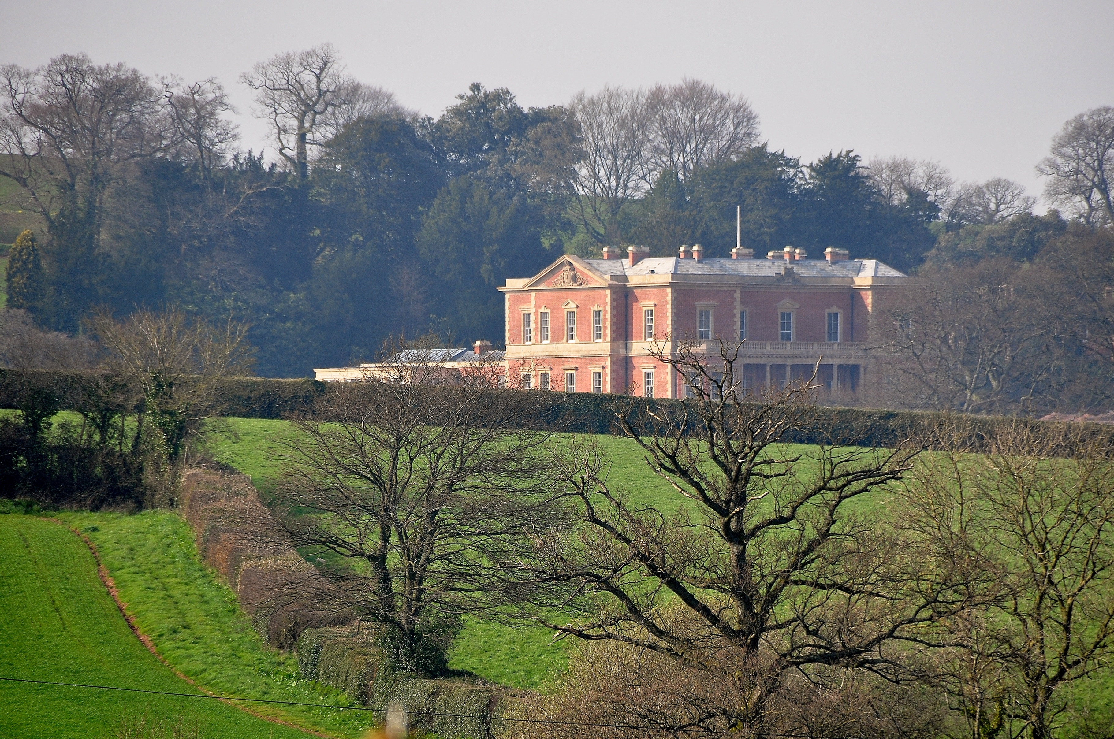 Mid Devon : Hillersdon House & Scenery